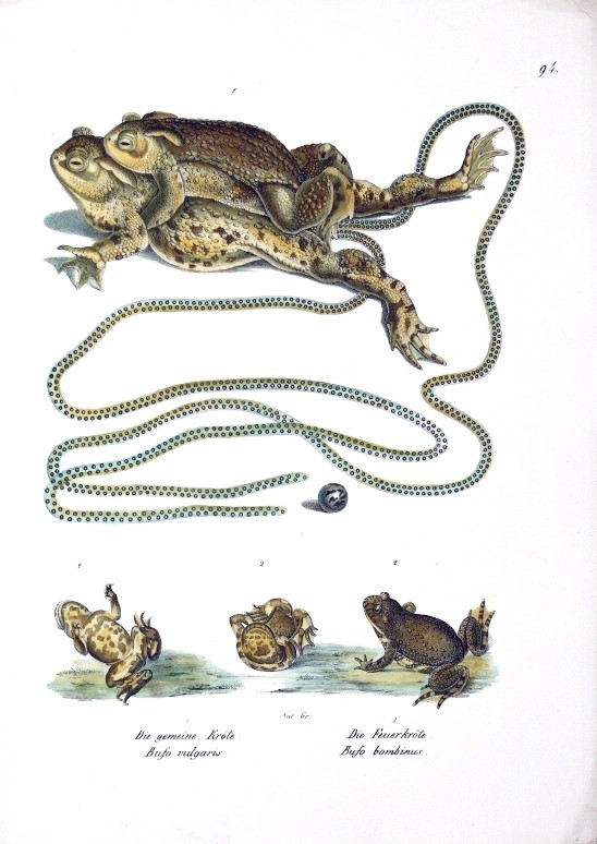 "Naturgeschichte und Abbildungen Der Reptilien", Mating toads, Bufo vulgaris, Bufo bombinus